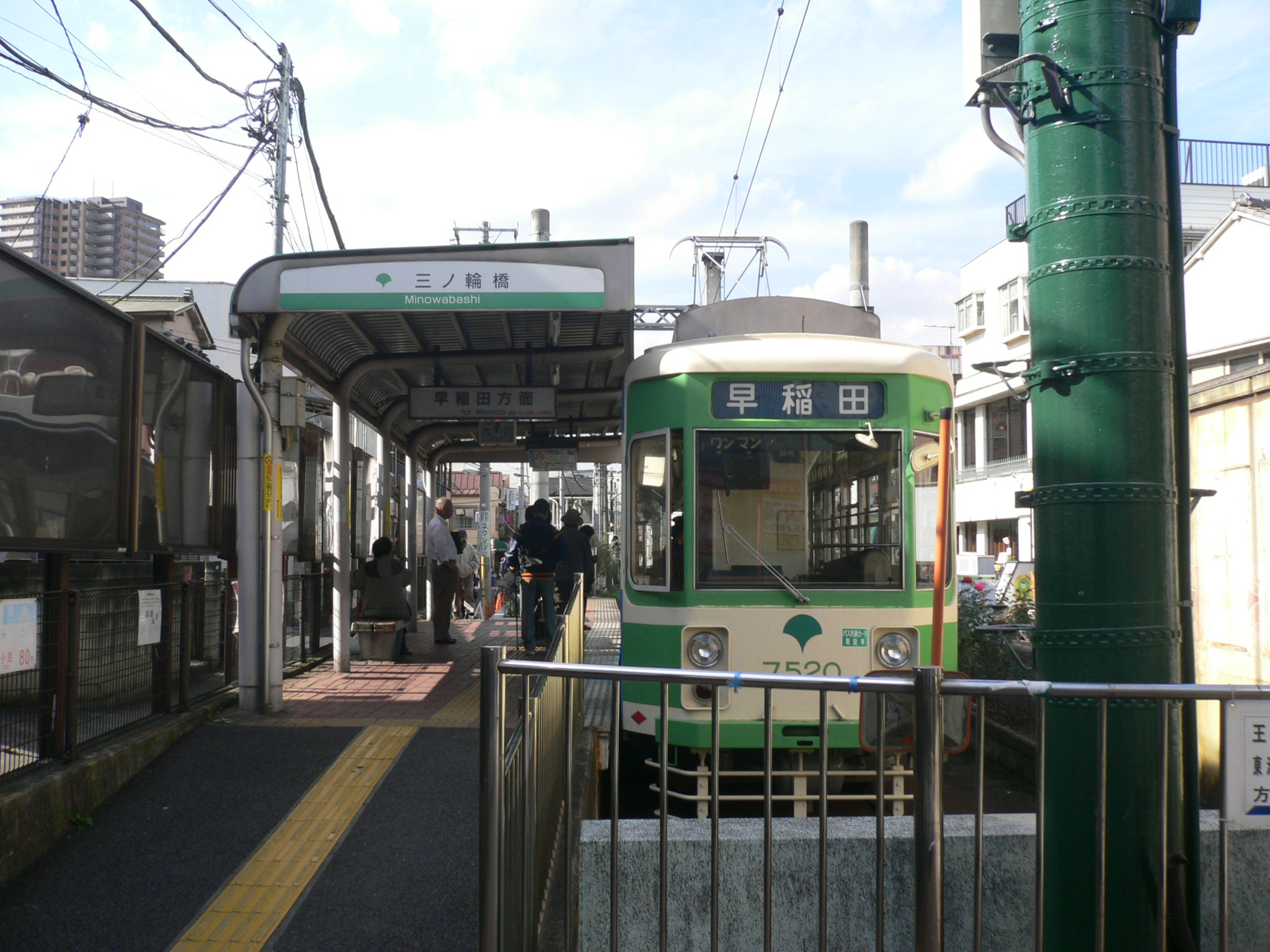 Minowabashi Station (三ノ輪橋駅), Arakawa W, Tokyo M.